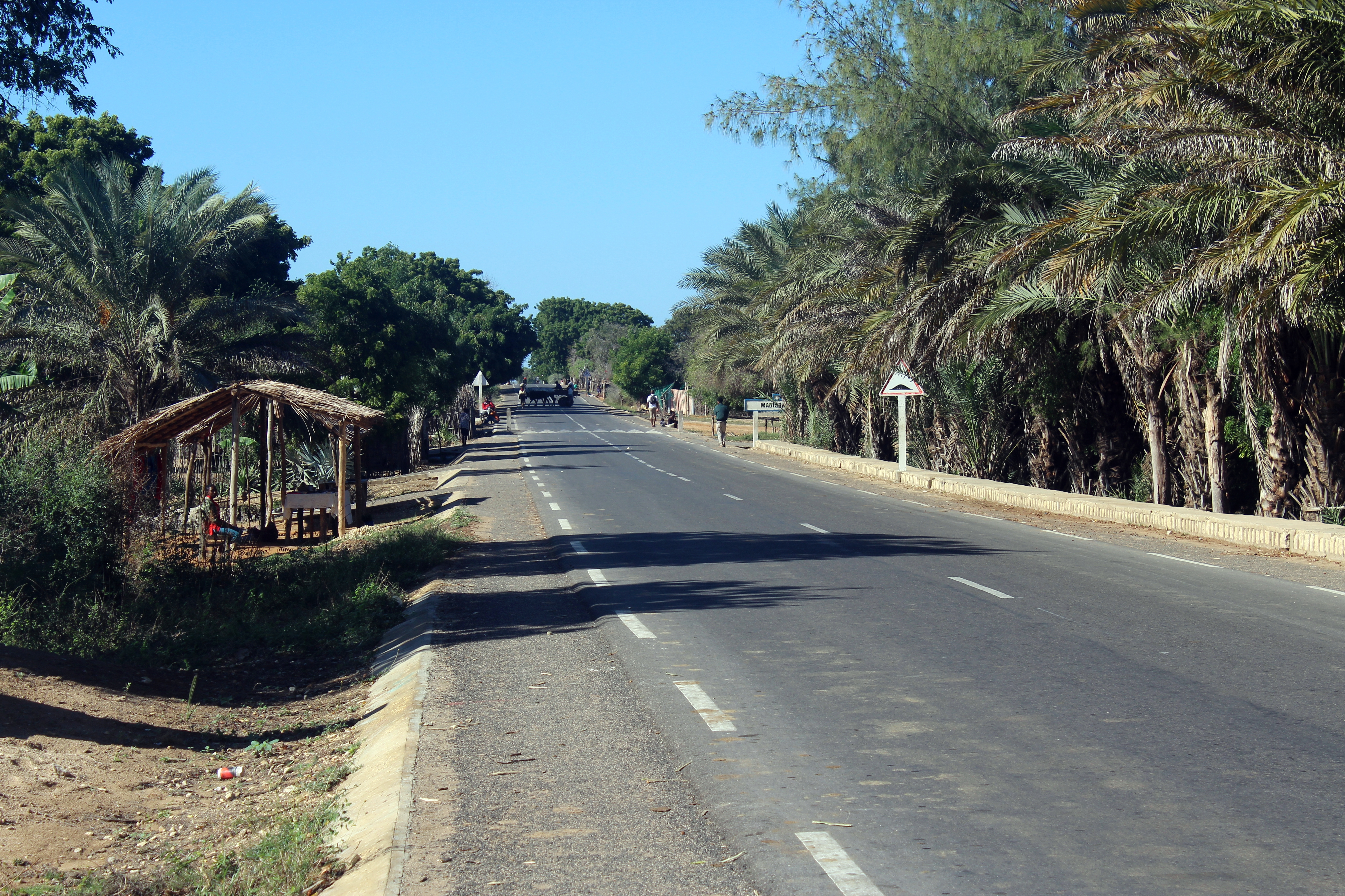 Route nationale 9, Madagascar, about 34 km north of Toliara, view to the south